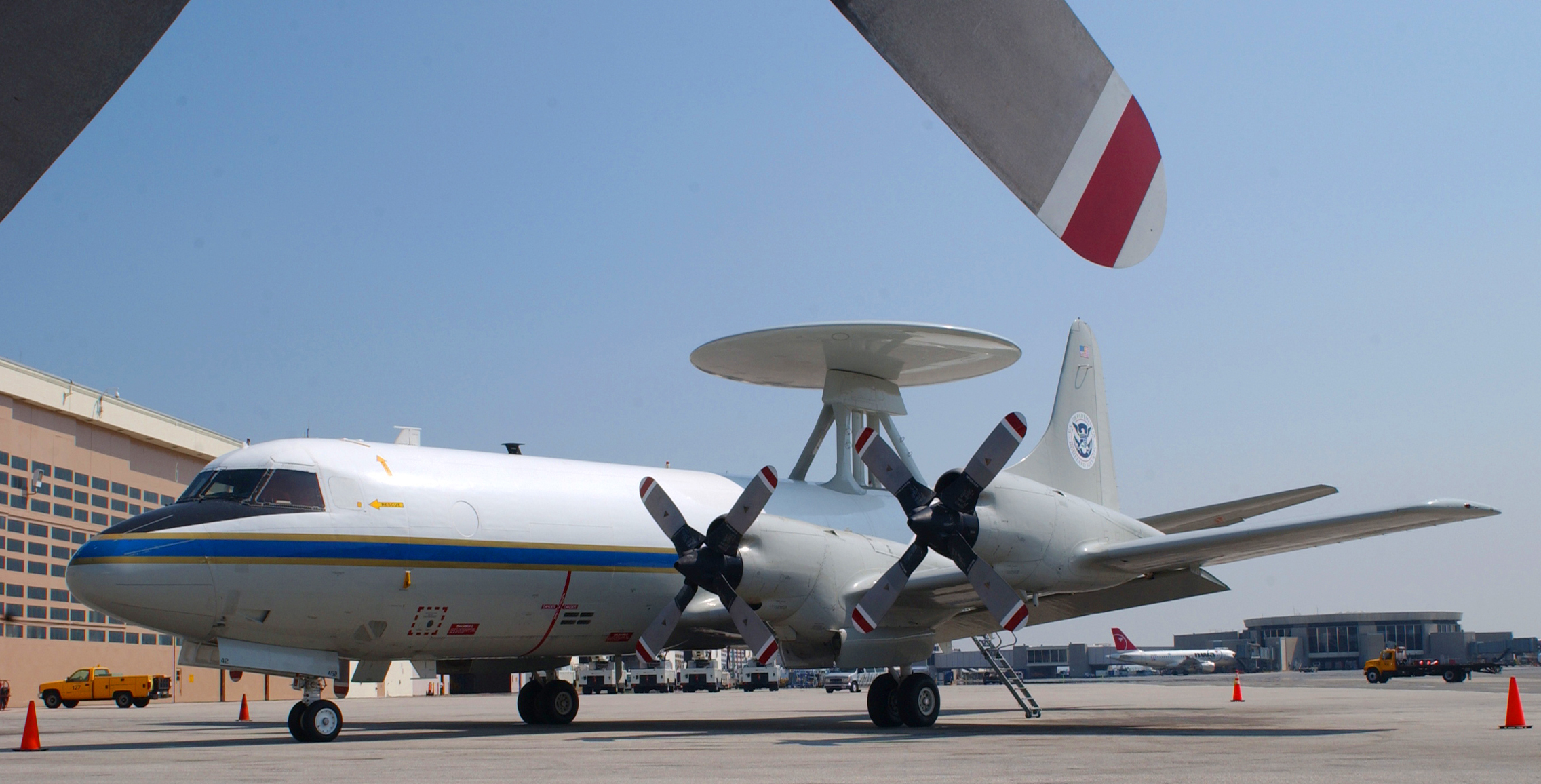 Lockheed P-3 Orion with large radar tracer system, owned and operated by the U.S. Customs and Border Protection (CBP)